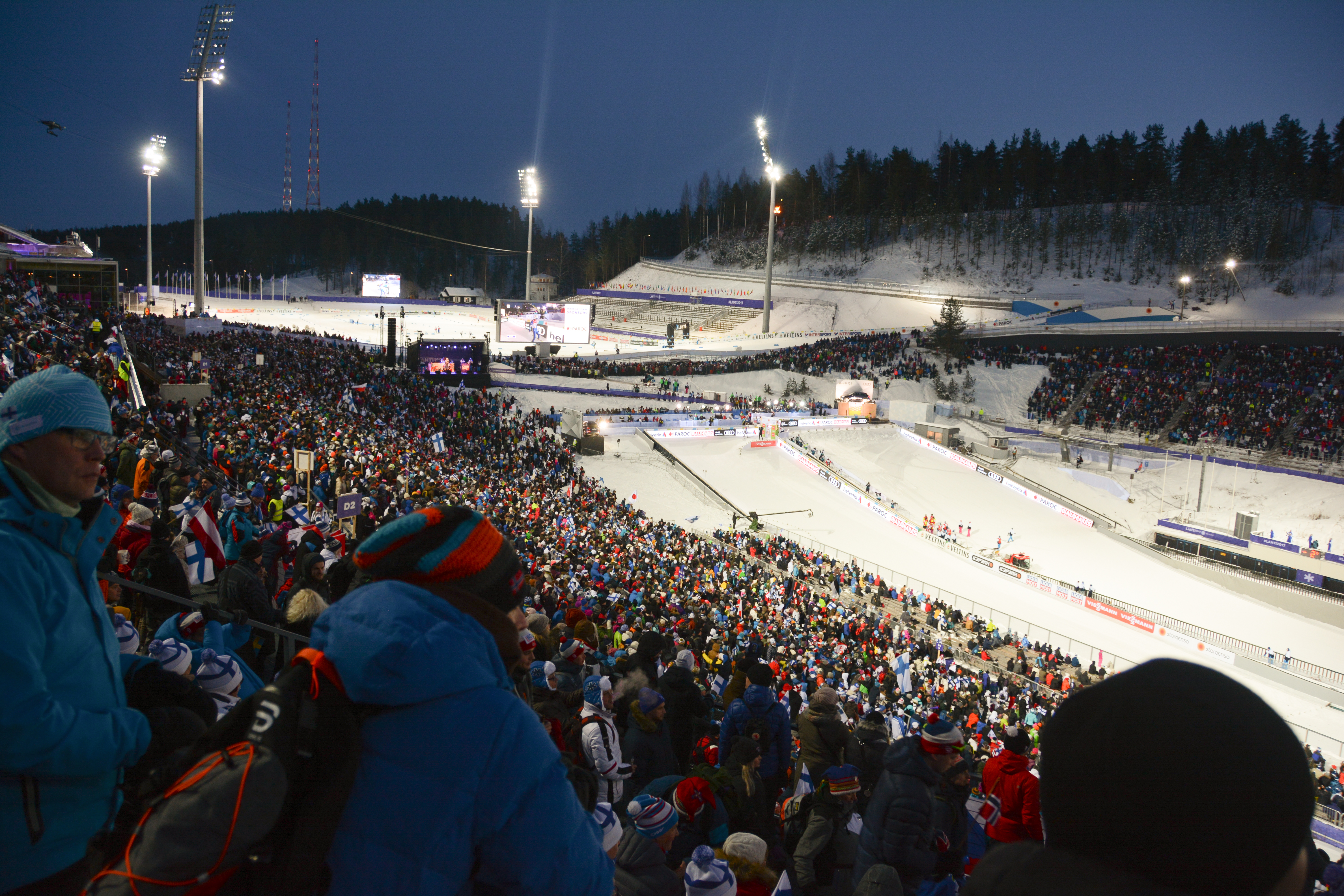 Part of the crowd in men's individual normal hill ski jumping competition in FIS Nordic World Ski Championships 2017 in Lahti, Finland